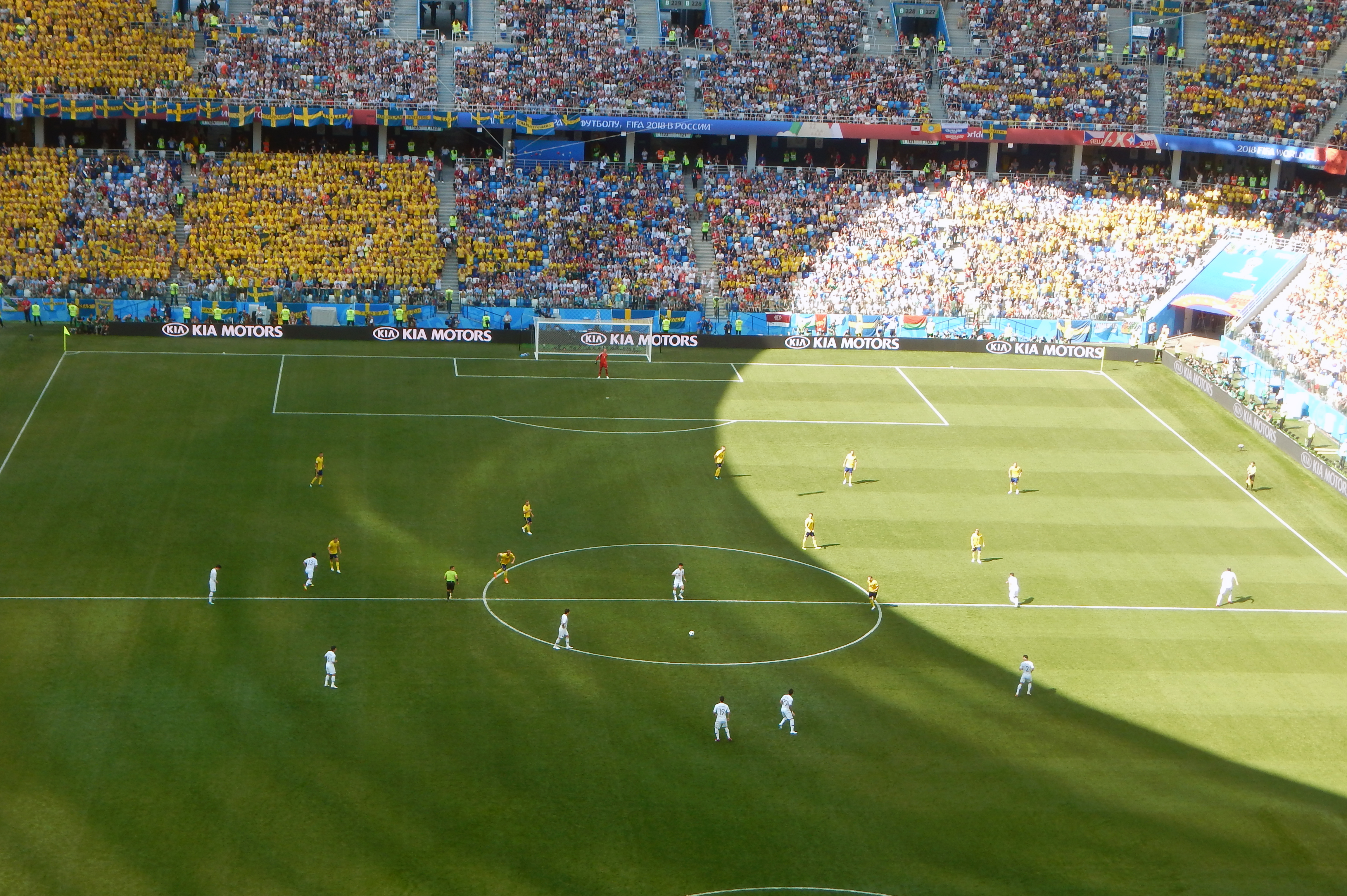 2018 FIFA World Cup - Group F - KOR v SWE